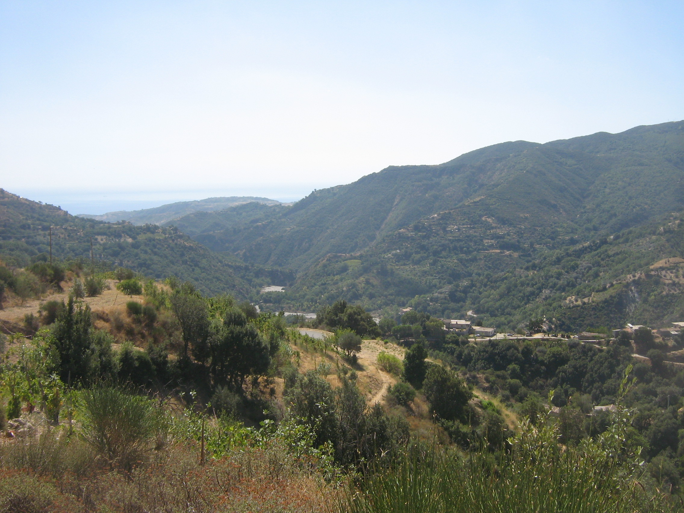 panoramica caulonia (rc)